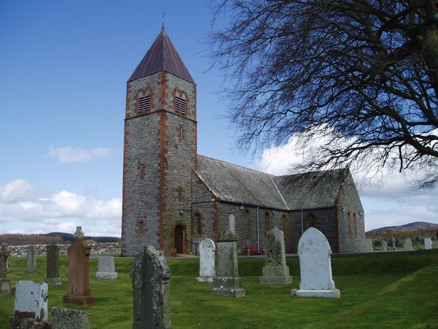 Colvend Parish Church This Church was built in 1771 and lies just outside the village of Colvend.